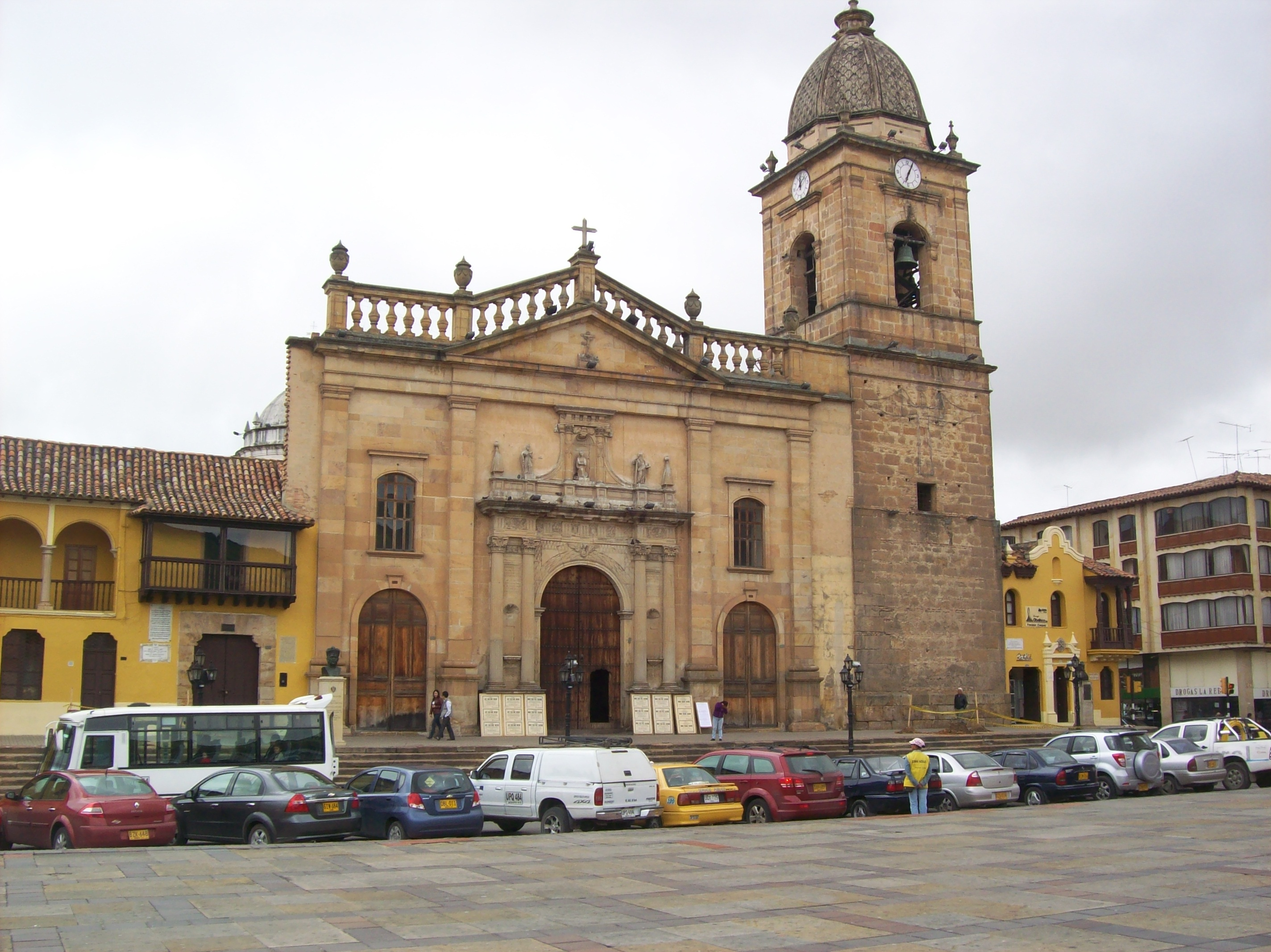 Facade of the Cathedral of Tunja (Colombia)